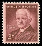 US stamp honoring George Eastman